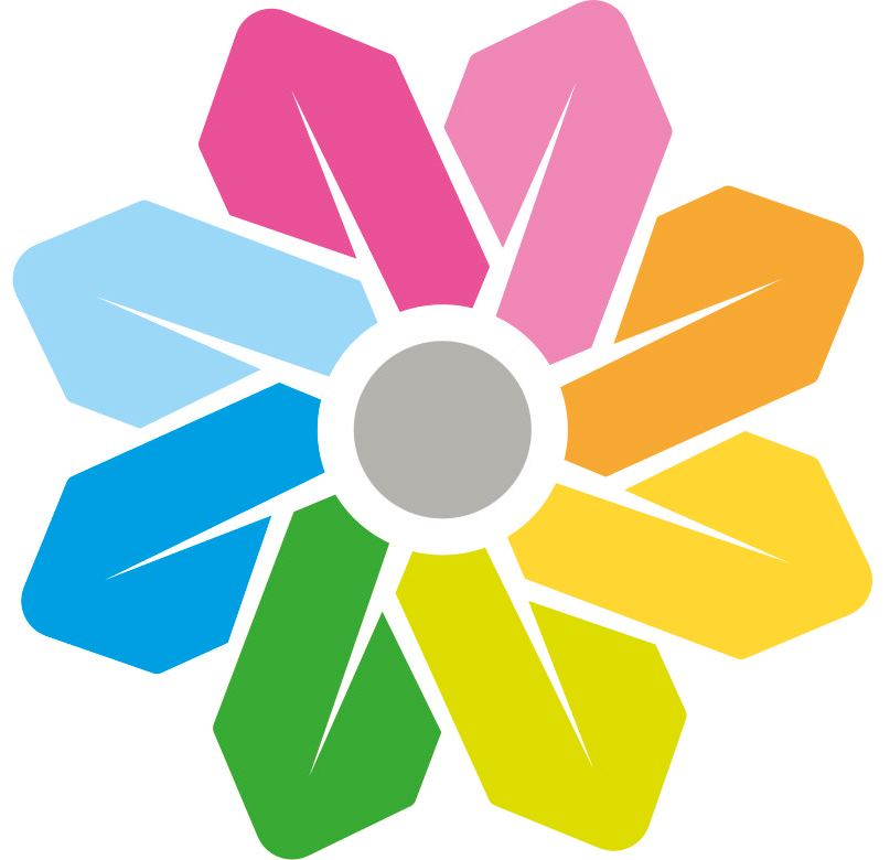 Logo of the ASAN service center